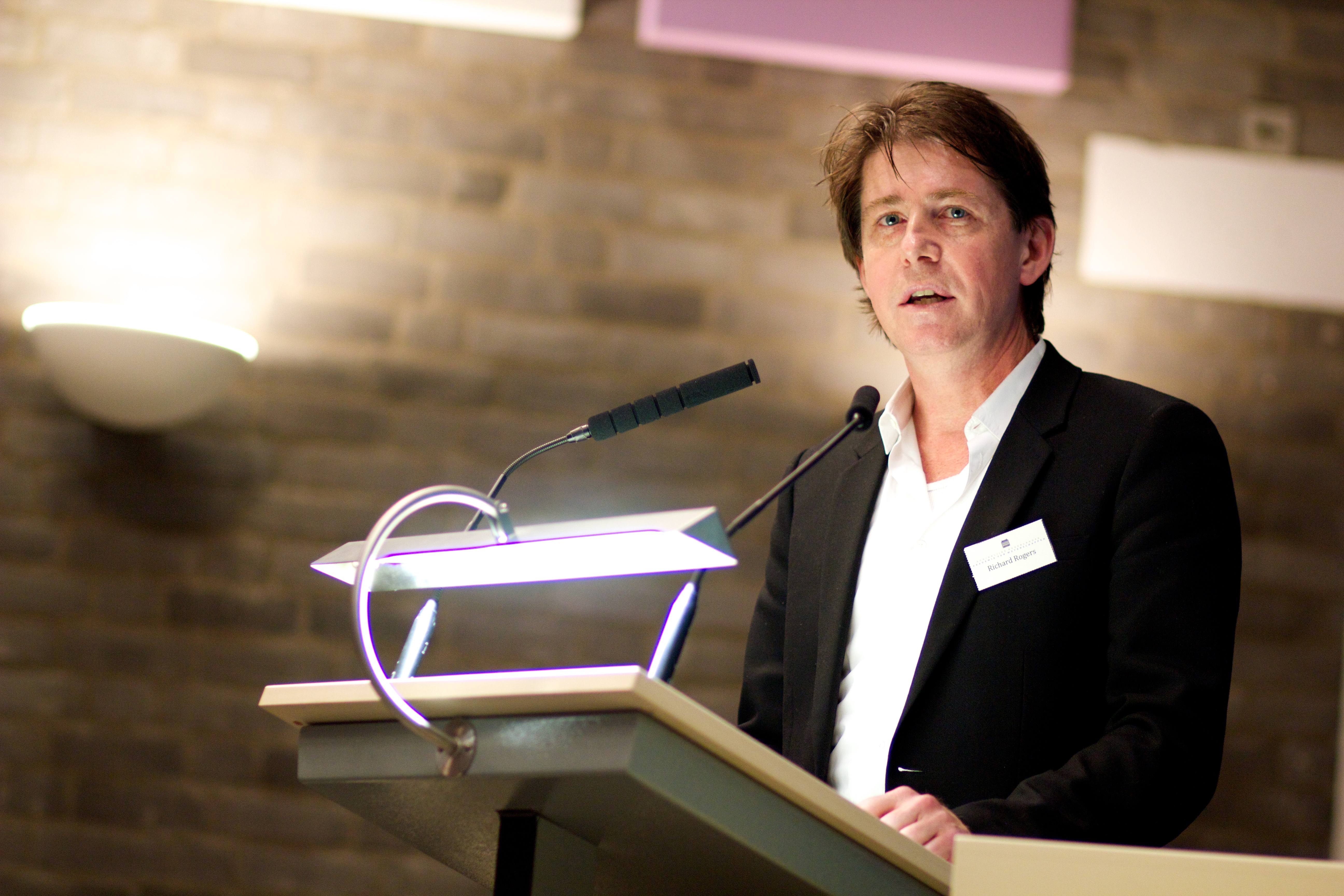 KNAW symposium "Wikipedia as a research tool"